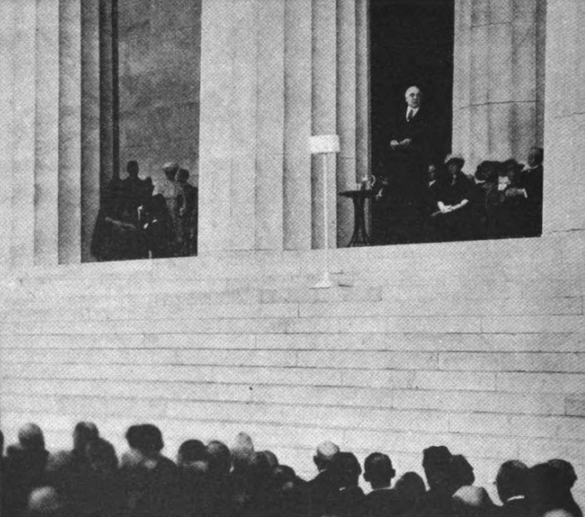 Photograph's caption: "THE PRESIDENT SPEAKS TO THE GREATEST RADIO AUDIENCE IN THE WORLD. At the dedication ceremonies of the Lincoln Memorial the President addressed an audience of about 50,000 people. But in front of him was placed a microphone that transmitted his voice to two radio stations—one at Anacostia and one at Arlington—which broadcasted the voice at wavelengths of 412 and at 2,650 meters respectively." [The Anacostia station was NOF, and the Arlington station was NAA, both operated by the U.S. Navy.]